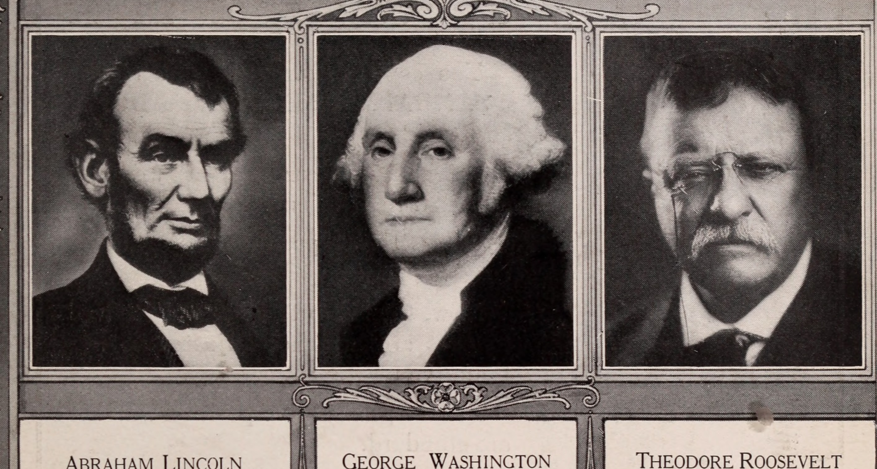 Title: Baltimore and Ohio employees magazine Year: 1912 (1910s) Authors: Baltimore and Ohio employees magazine Baltimore and Ohio Railroad Company Subjects: Baltimore and Ohio Railroad Company Publisher: (Baltimore, Baltimore and Ohio Railroad) Text Appearing Before Image: J. L. STIFEL & SONS Indigo Dyers and PrintersWheeling, W. Va. SALES OFFICES NEW YORK 260 Church St. PHILADELPHIA 1033 Chestnut St. BOSTON 31 Bedford St. CHICAGO 223 W.Jackson Blvd. SAN FRANCISCO, Postal Telegph Bldg.ST. JOSEPH, MO Saxton Bank Bldg. BALTIMORE Coca Cola Bldg. ST. LOUIS 604 Star Bldg. ST. PAUL 238 Endicott Bldg.TORONTO. 14 Manchester Bldg.WINNIPEG. 400 Hammond Bldg.MONTREAL, Room 508 Read Bldg. VANCOUVER 506 Mercantile Bldg. Please mention our magazine when writing advertisers Baltimore %^ h\ o Employes Megazine Text Appearing After Image: Abraham Lincoln Property is ihe fruit oflabor; property is desira-able; is a positive good inthe world. That someshould be rich shows thatothers may become rich,and hence is just encour-agement to industry andenterprise. Let not him who is house-less, pull down the houseof another, but let himwork diligently and buildone for himself, thus byexample assuring that hisown shall be safe fromviolence when built.—-Address to theWorkmensAssociation in 1864. George Washington Observe good faith and justicetowards all nations; cultivatepeace and harmony with all.Religion and Morality enjointhis conduct; and can it be thatgood policy does not equallyenjoin it? It will be worthyof a free, enlightened, and, atno distant period, a greatnation, to give to mankind themagnanimous and too novelexample of a people alwaysguided by an exalted justiceand benevolence. Who candoubt that, in the course oftime and things, the fruits ofsuch a plan would richly repayany temporary advantageswhich might be lost